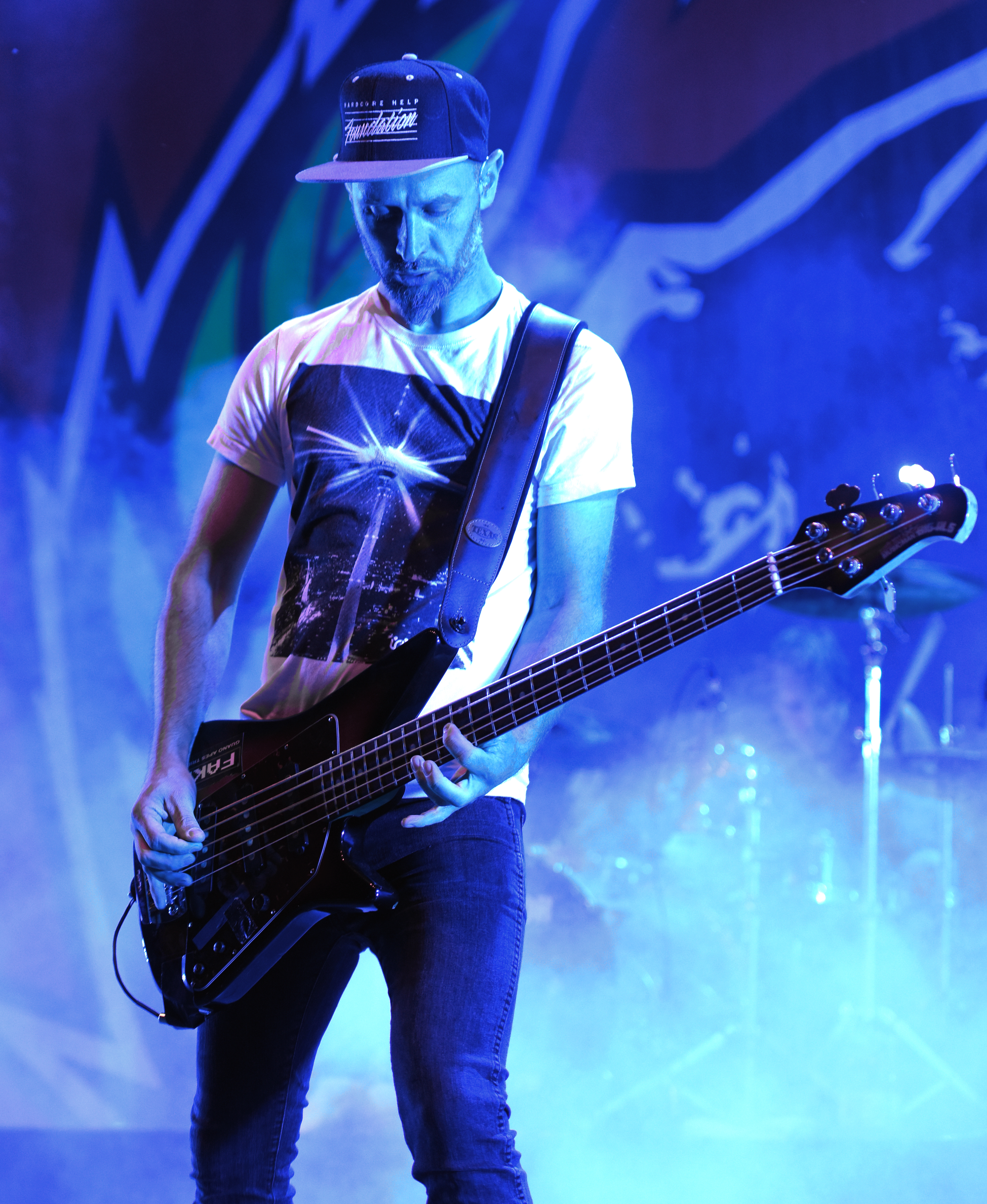 Guano Apes at the Open Flair festival in Eschwege, Germany, 2015.